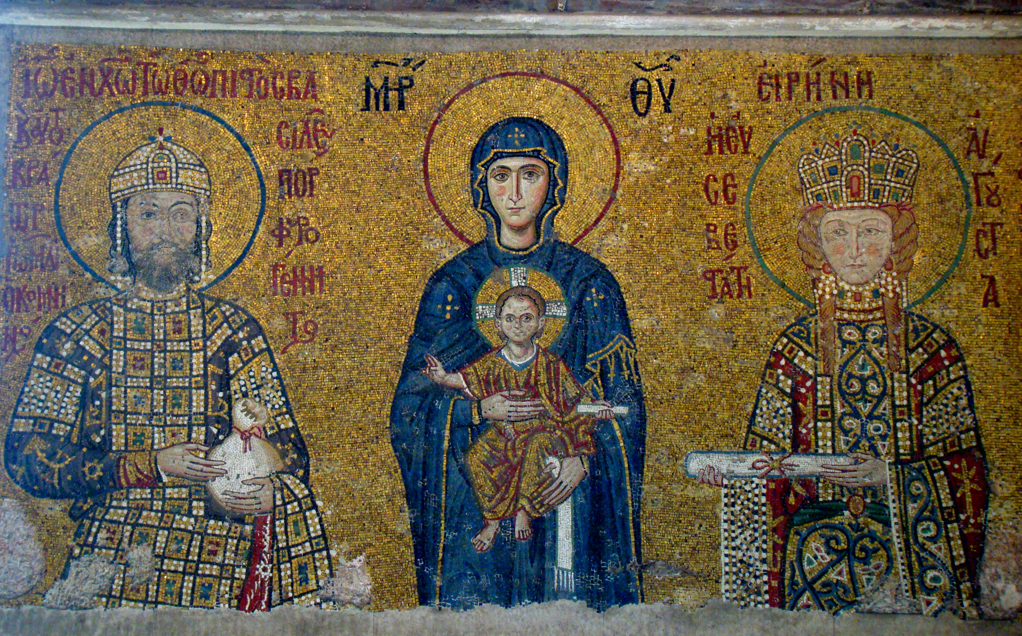 The Comnenus mosaics from the Hagia Sophia Cathedral (now museum) in Istanbul, Turkey. It shows Emperor John II (1118–1143) on the left, the Virgin Mary and infant Jesus in the centre, and Empress Irene on the right.